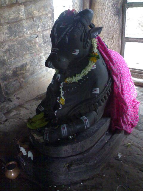 Tamboor Basavanna temple 8 km from Kalghatagi Author and Source : Manjunath Doddamani, Gajendragad, Karnataka (North), India